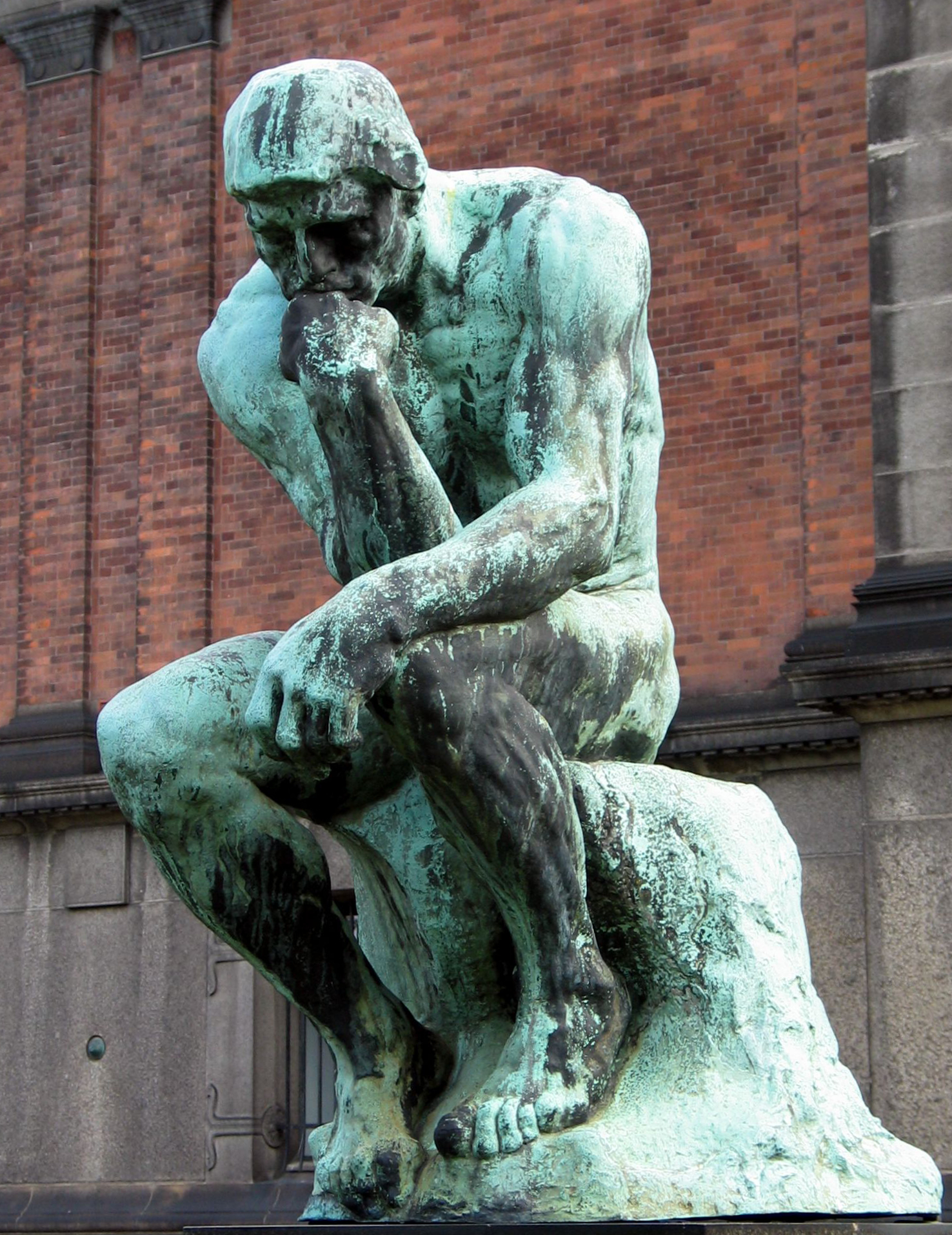 The Thinker by Auguste Rodin. Grubleren, in Ny Carlsberg Glyptotek.